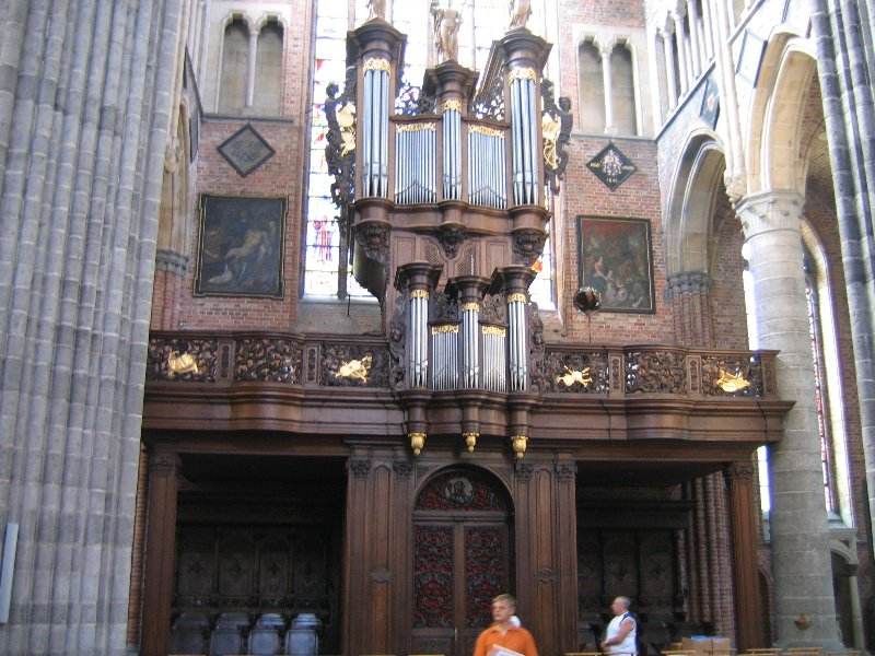 Foto